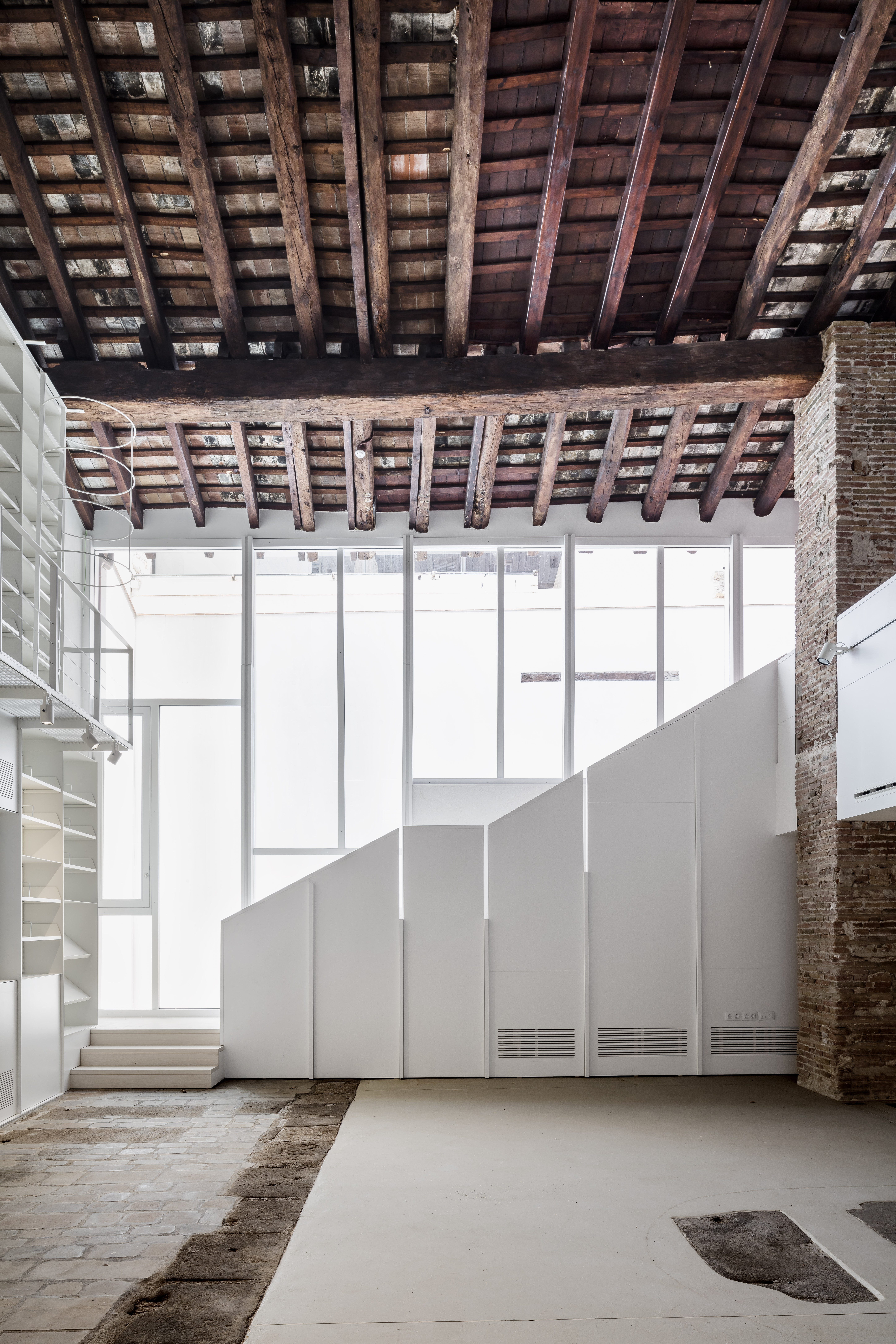 Ground floor of the second part of 'La Seca'